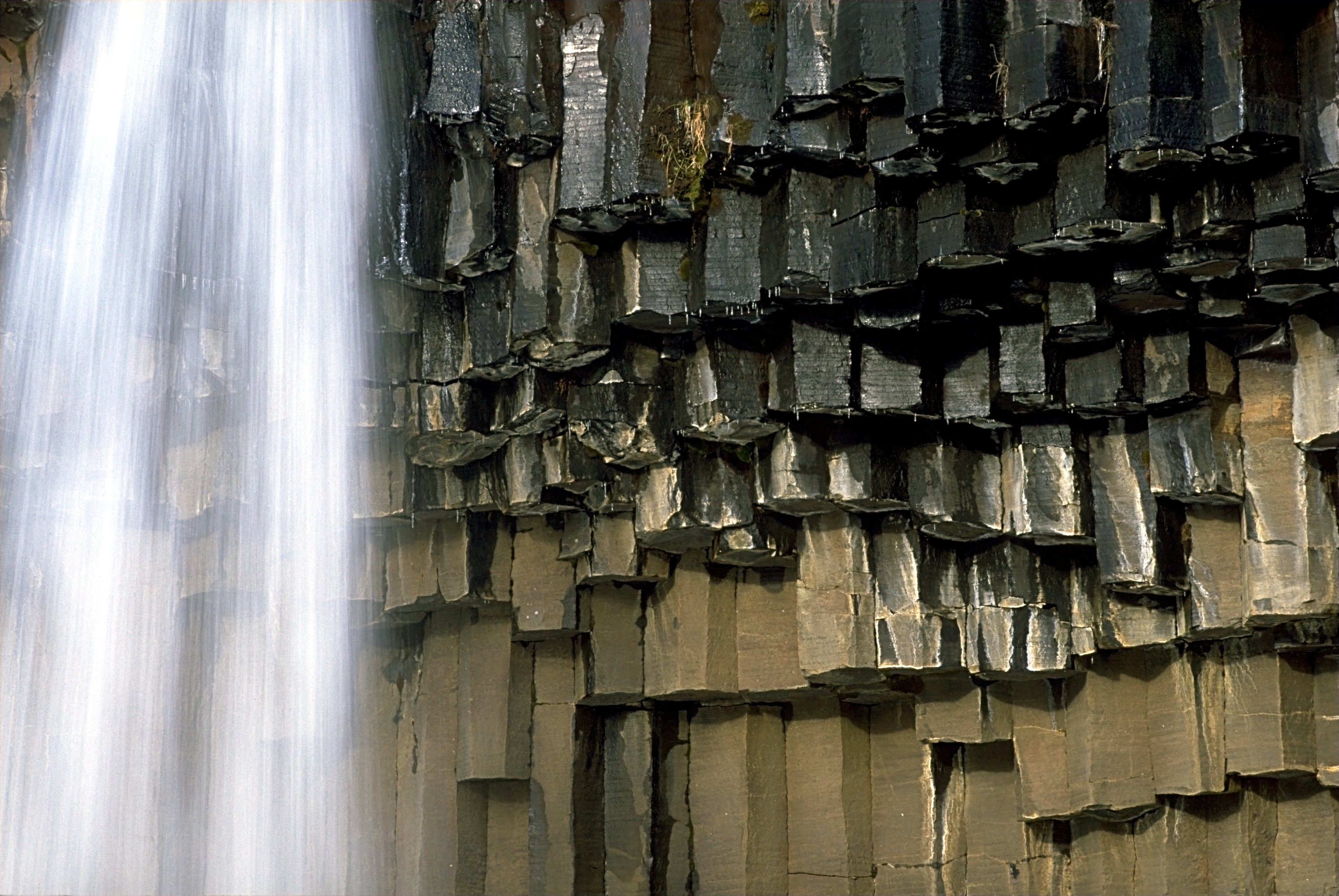 Detailed view on basalt columns at Svartifoss, Skaftafell national park, Iceland Photo was taken using the following technique: Film: Fuji Velvia Lens: 2.4/100 Macro Filter: Body: Minolta Dynax 7 Support: Manfrotto 190B Image with Information in English Bild mit Informationen auf Deutsch